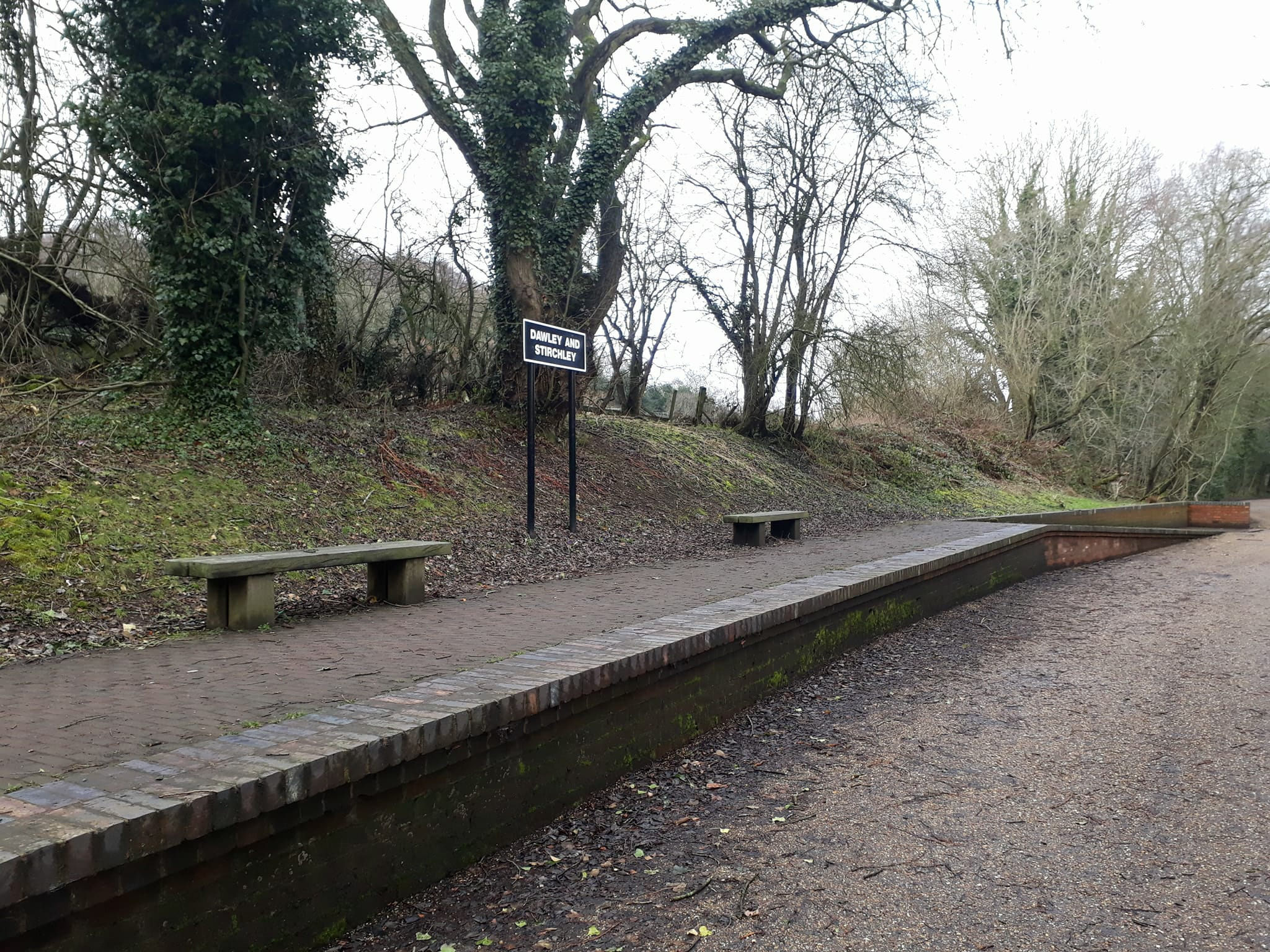 My Own.